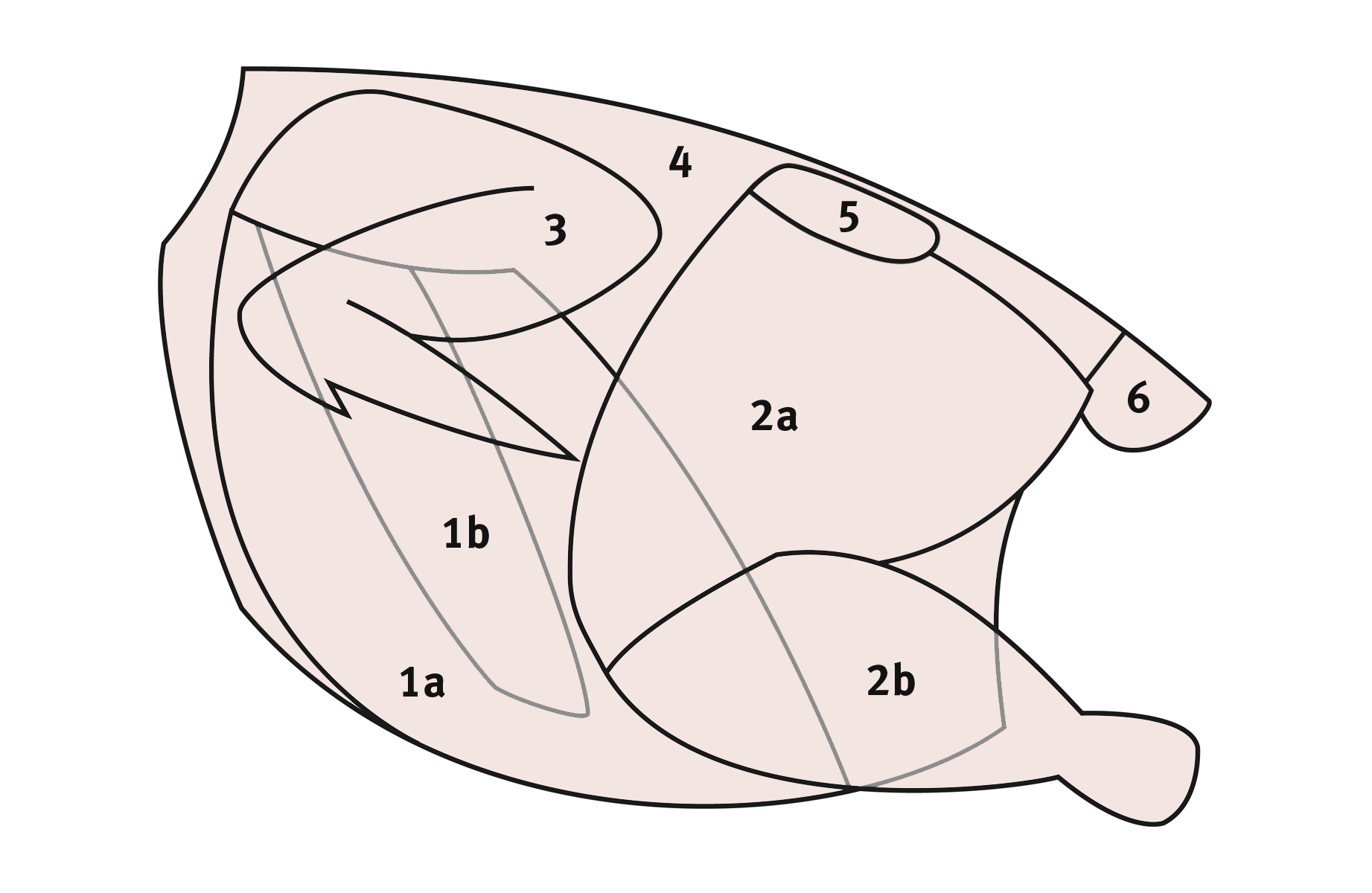 1: Breast 1a ? 1b ? 2: Leg 2a: Thigh 2b: Drumstick 3: Wing 4: ? 5: Oyster 6: Parsons nose